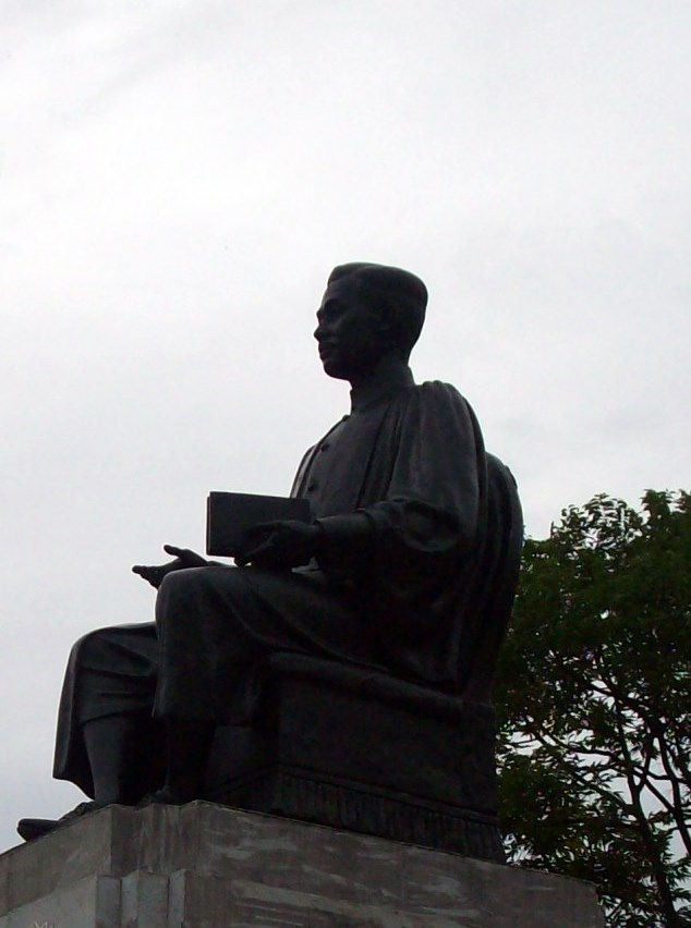 Prince Rapee monument